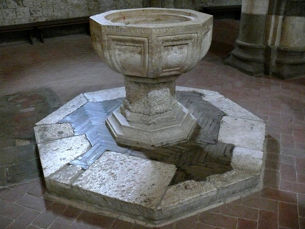 Sovana, Cathedral, Baptismal font